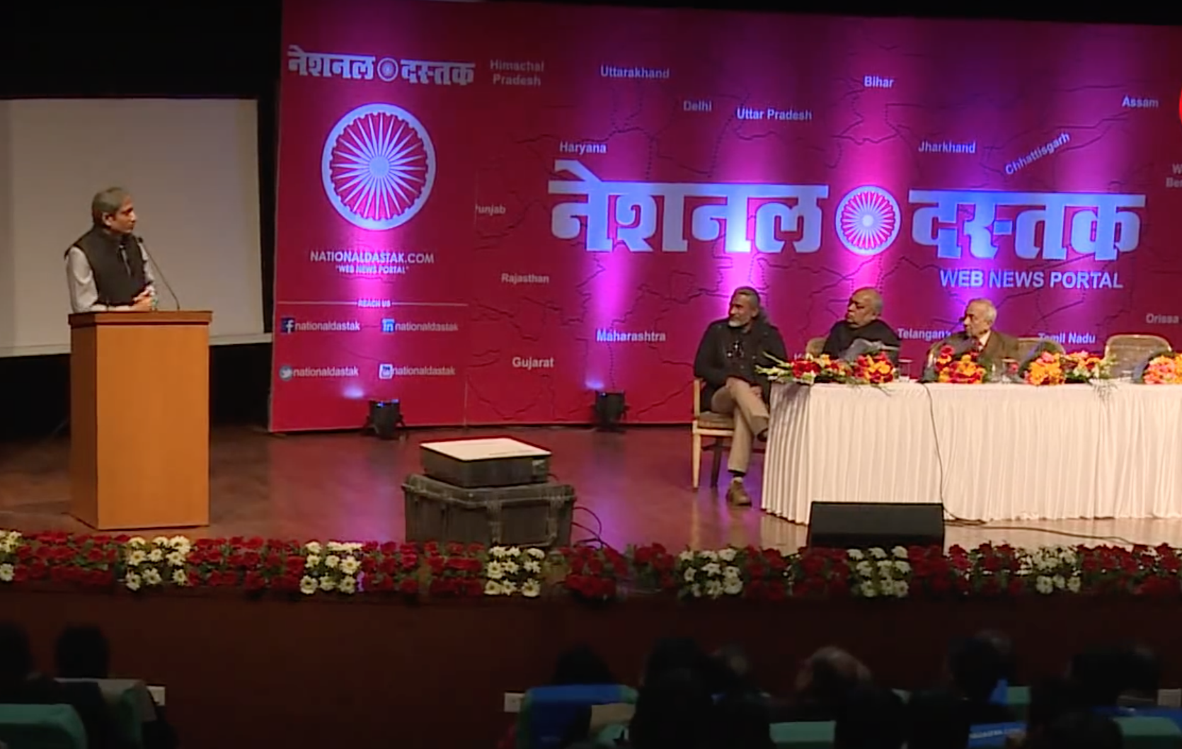 Ravish Kumar giving speech on National Dastak launching ceremony.